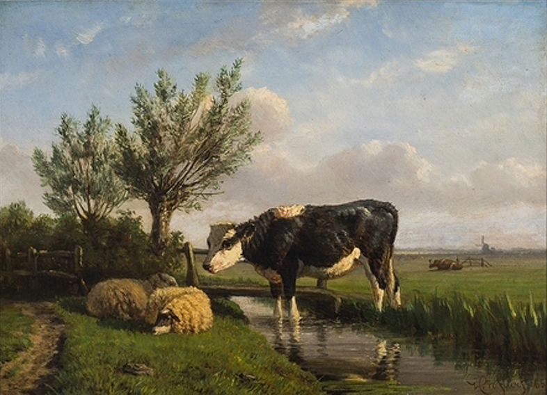 Pasture landscape with cows, sheep, pastures and rill